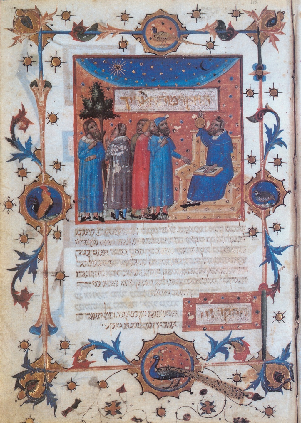 a copy of manuscript of the Guide of the Perplexed by Maimonides made by Ferrer Bassa in 1348 in Barcelona